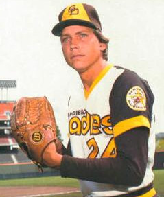 Professional baseball player Dave Wehrmeister